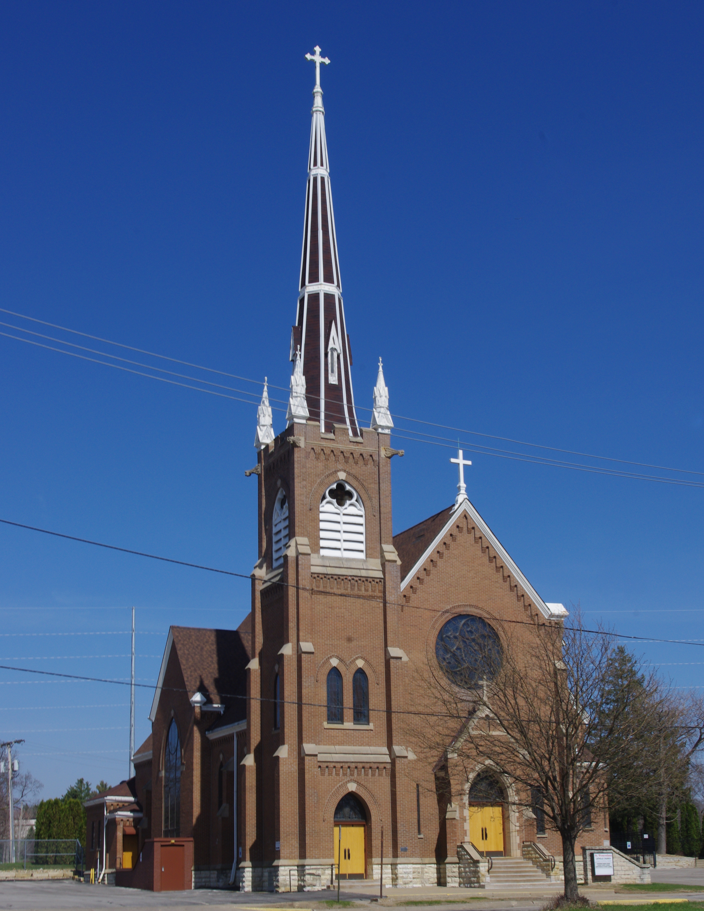 Saint Wenceslaus Church (Cedar Rapids, Iowa) - exterior